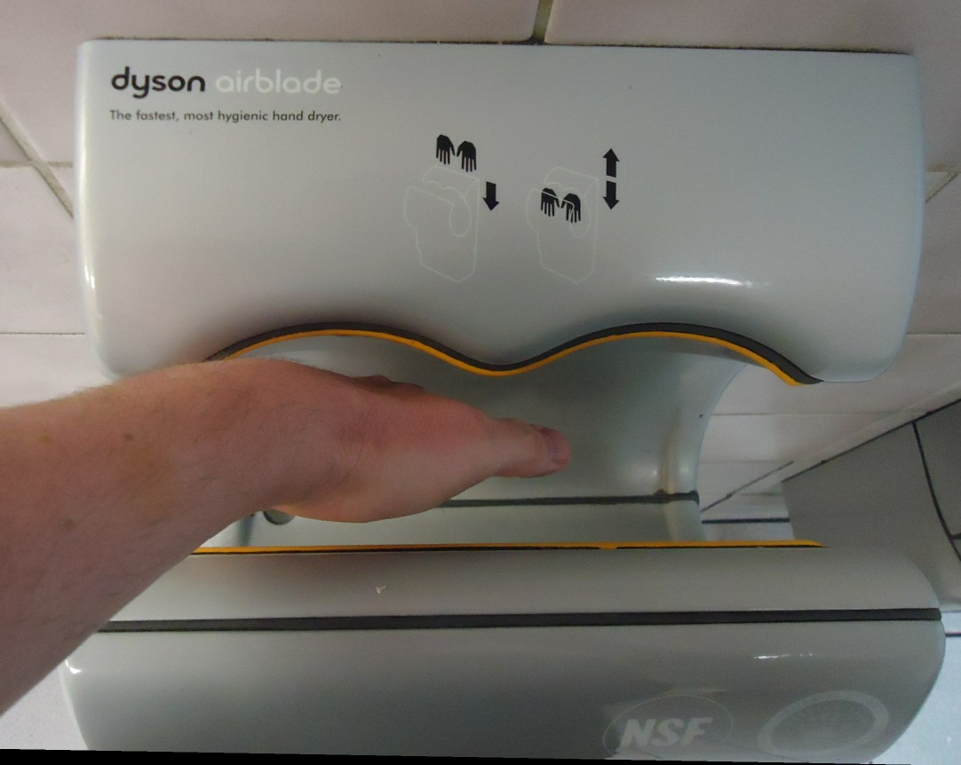 A machine to dry hands quickly in a lavatory. Hands are placed in the two openings, and the machine begins automatically; it dries them quickly, with less noise. My left hand is in the machine; my right one is, as you guessed, taking this picture.